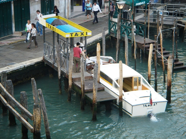 Boat taxi